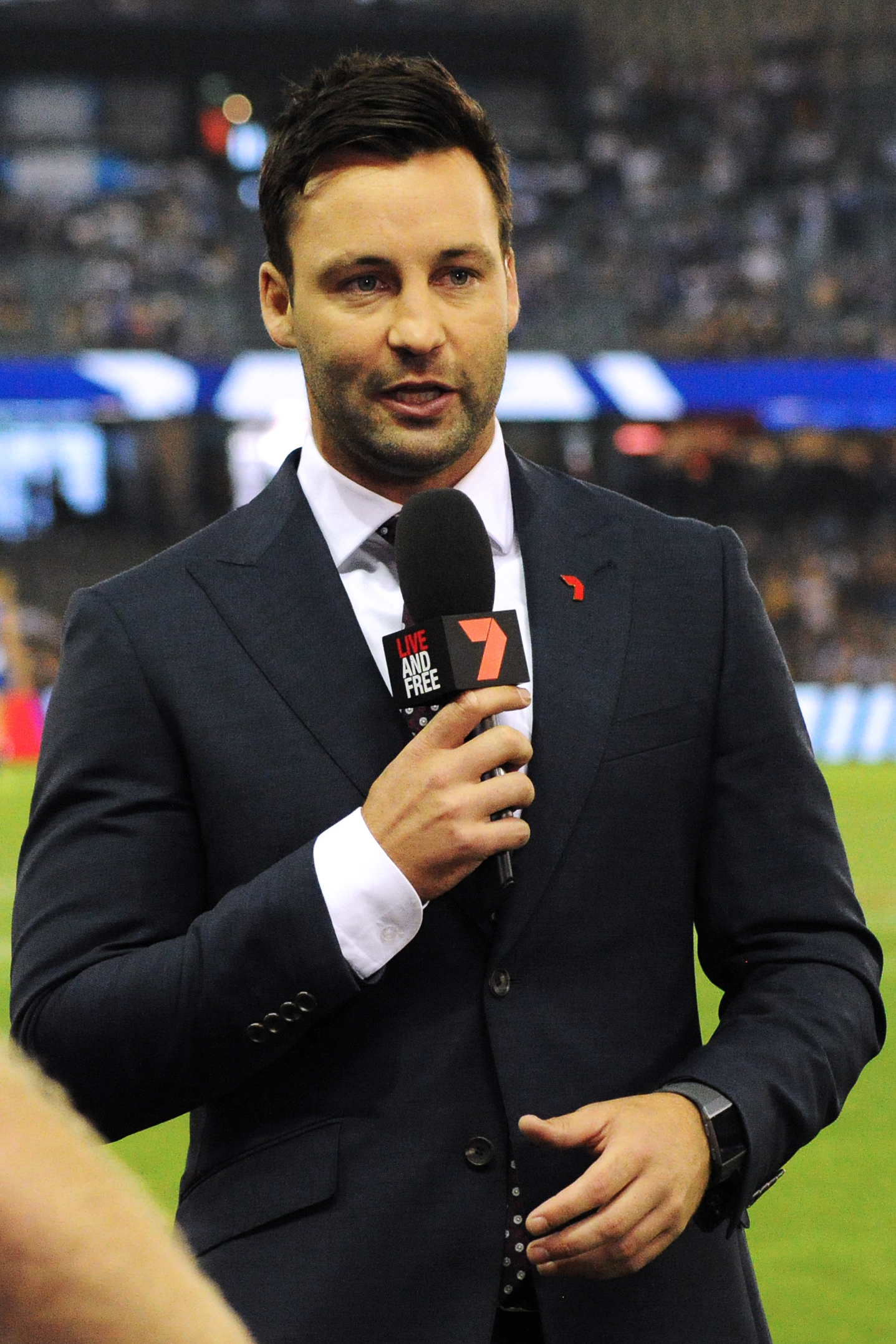 Jimmy Bartel during the AFL round five match between North Melbourne and Hawthorn on Sunday, 22 April 2018 at Etihad Stadium in Melbourne, Victoria.